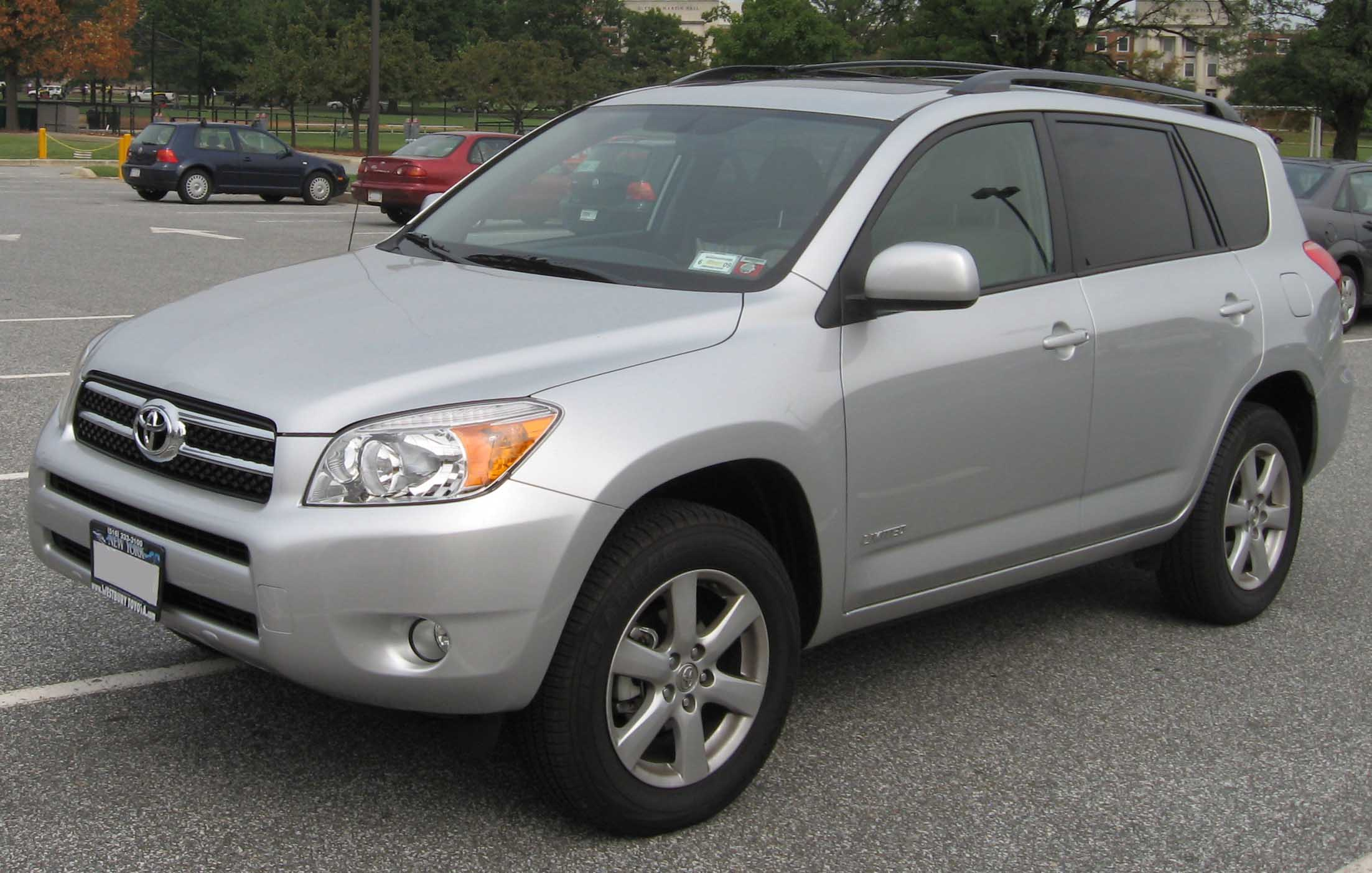 2006-2008 Toyota RAV4 photographed in College Park, Maryland, USA.